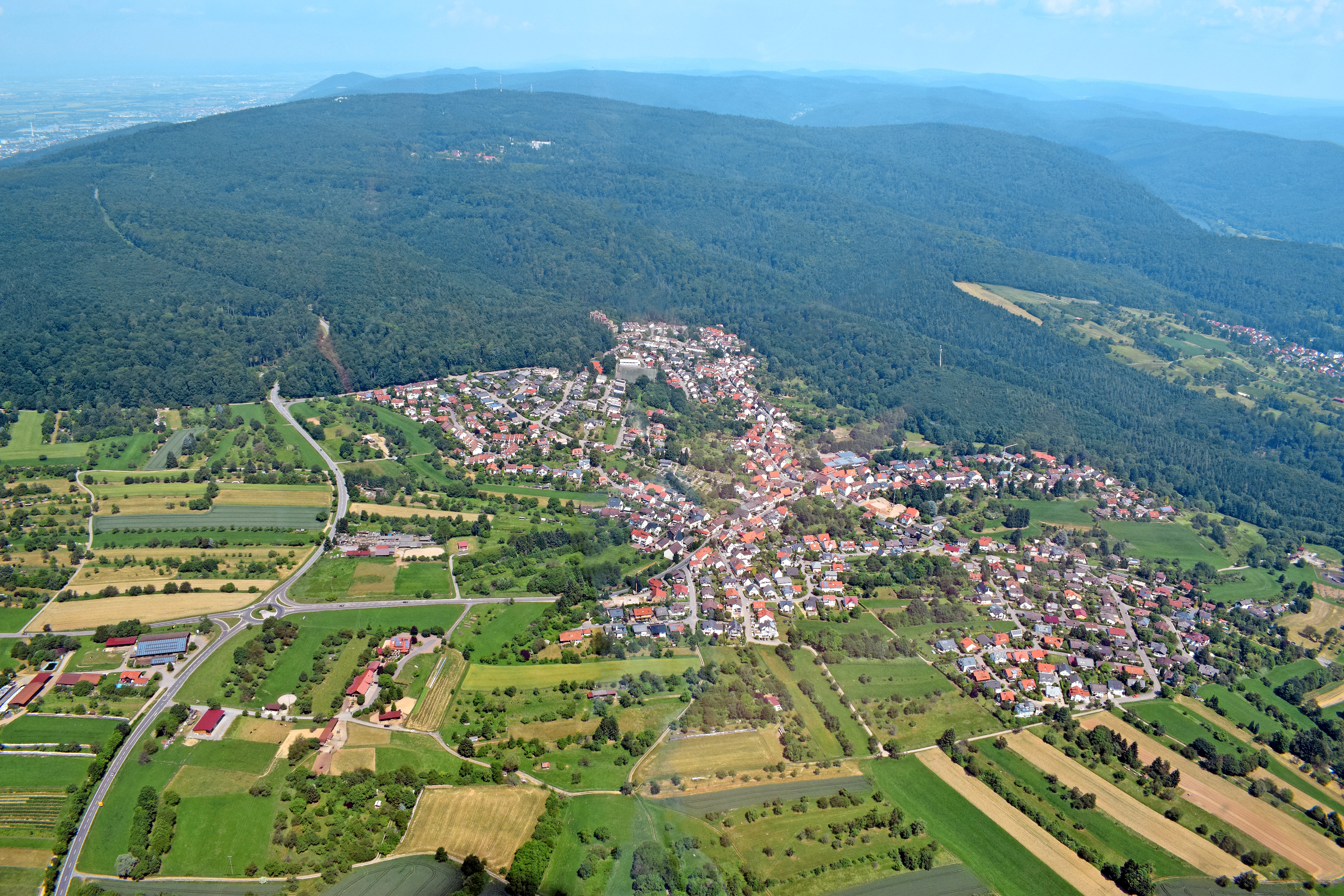 Aerial view of Gaiberg from a gyrocopter, south-north direction towards Heidelberg-Königstuhl. On the top left in the plain is Heidelberg, on the top right is a part of the Neckar just before Neckargemünd.